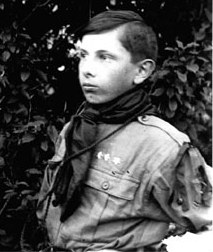 Stepan Bandera, when he was a member of Plast